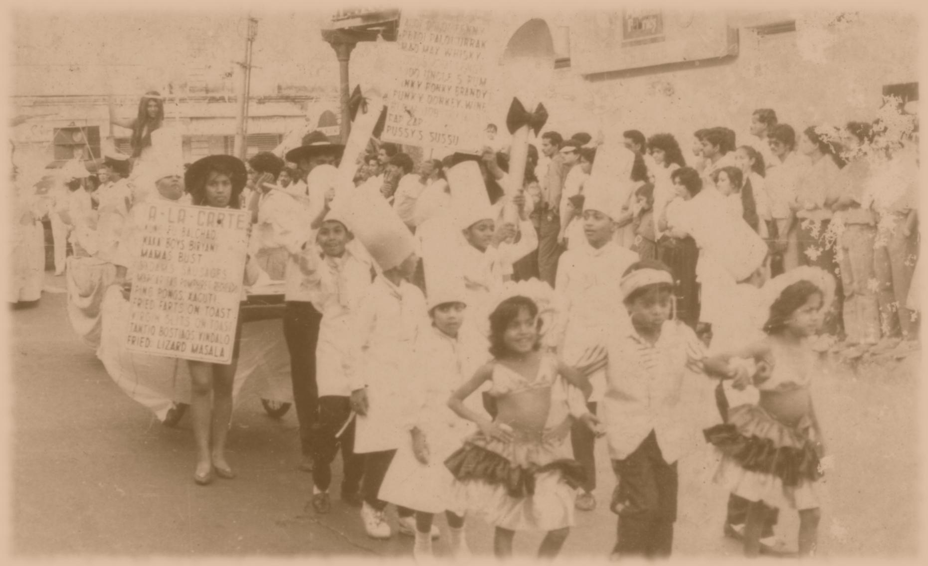 An unusual Goa Carnival float by the late Alfred Vaz.